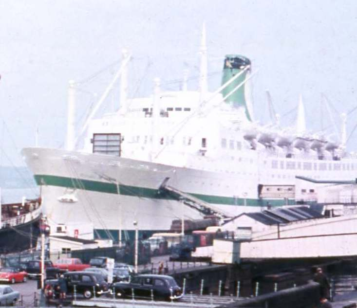 1971 view from Princes Landing Stage, Liverpool with Manxman.